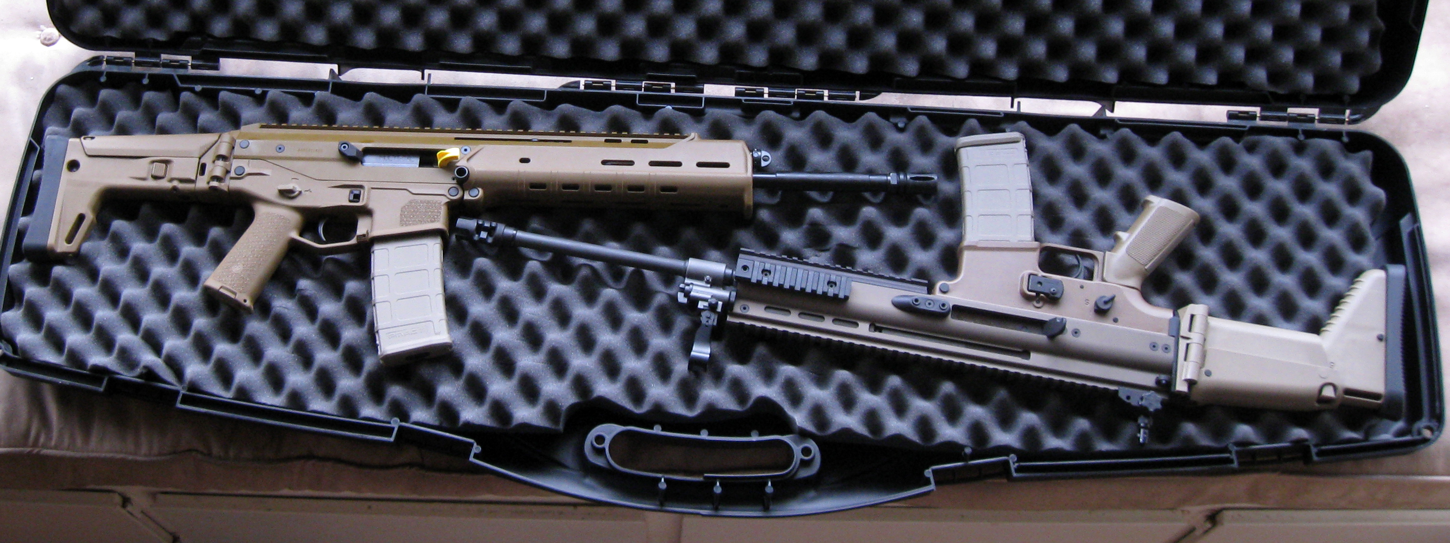 A few weeks ago I suddenly decided I wanted to possess an FN SCAR 16s (right) and a Bushmaster ACR (left). I picked them up two minutes after the required California ten day wait ended.